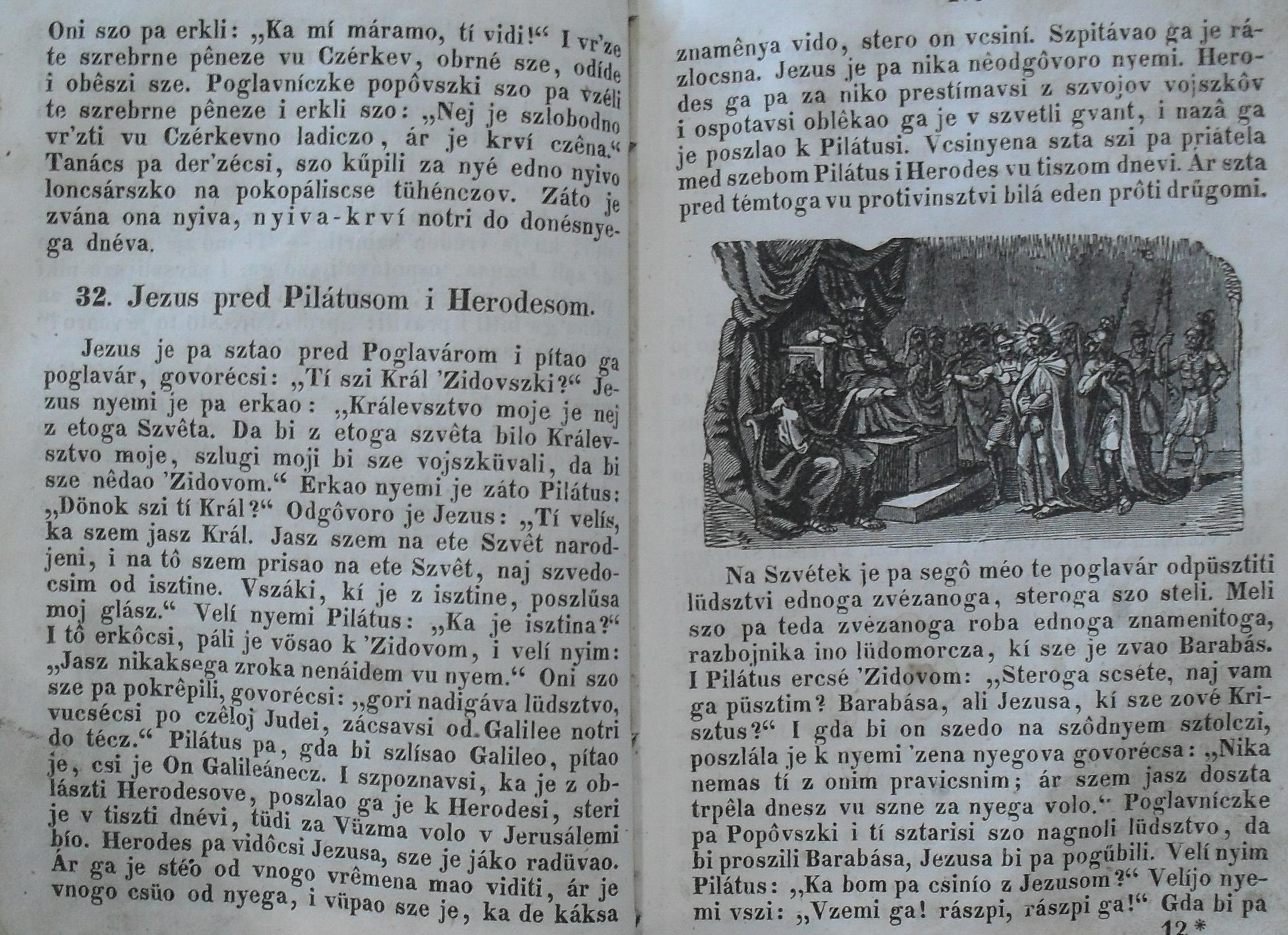 Jesus ahead of Pontius Pilate and Herod Antipater (Dvakrat 52 Bibliszke historie, 1847) in prekmurian language (prekmurščina)